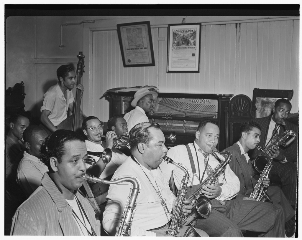 Gottlieb, William P., 1917-, photographer. Omer Simeon, Loyal Charles Lodge No. 167, New York, N.Y., ca. Oct. 1947] 1 negative : b&w ; 3 1/4 x 4 1/4 in. Notes: Gottlieb Collection Assignment No. 315 Reference print available in Music Division, Library of Congress. Purchase William P. Gottlieb Forms part of: William P. Gottlieb Collection (Library of Congress). Subjects: Thomas, Joe, 1909-1986 Wilcox, Eddie, 1907-1968 Simeon, Omer, 1902-1959 Jazz musicians--1940-1950. Big bands--1940-1950. Saxophonists--1940-1950. Loyal Charles Lodge No. 167 Format: Portrait photographs--1940-1950. Group portraits--1940-1950. Film negatives--1940-1950. Rights Info: Mr. Gottlieb has dedicated these works to the public domain, but rights of privacy and publicity may apply. Repository: (negative) Library of Congress, Prints & Photographs Division, Washington D.C. 20540 USA, (reference print) Library of Congress, Music Division, Washington D.C. 20540 USA, Part Of: William P. Gottlieb Collection (DLC) 99-401005 General information about the Gottlieb Collection is available at Persistent URL: Call Number: LC-GLB23- 0847